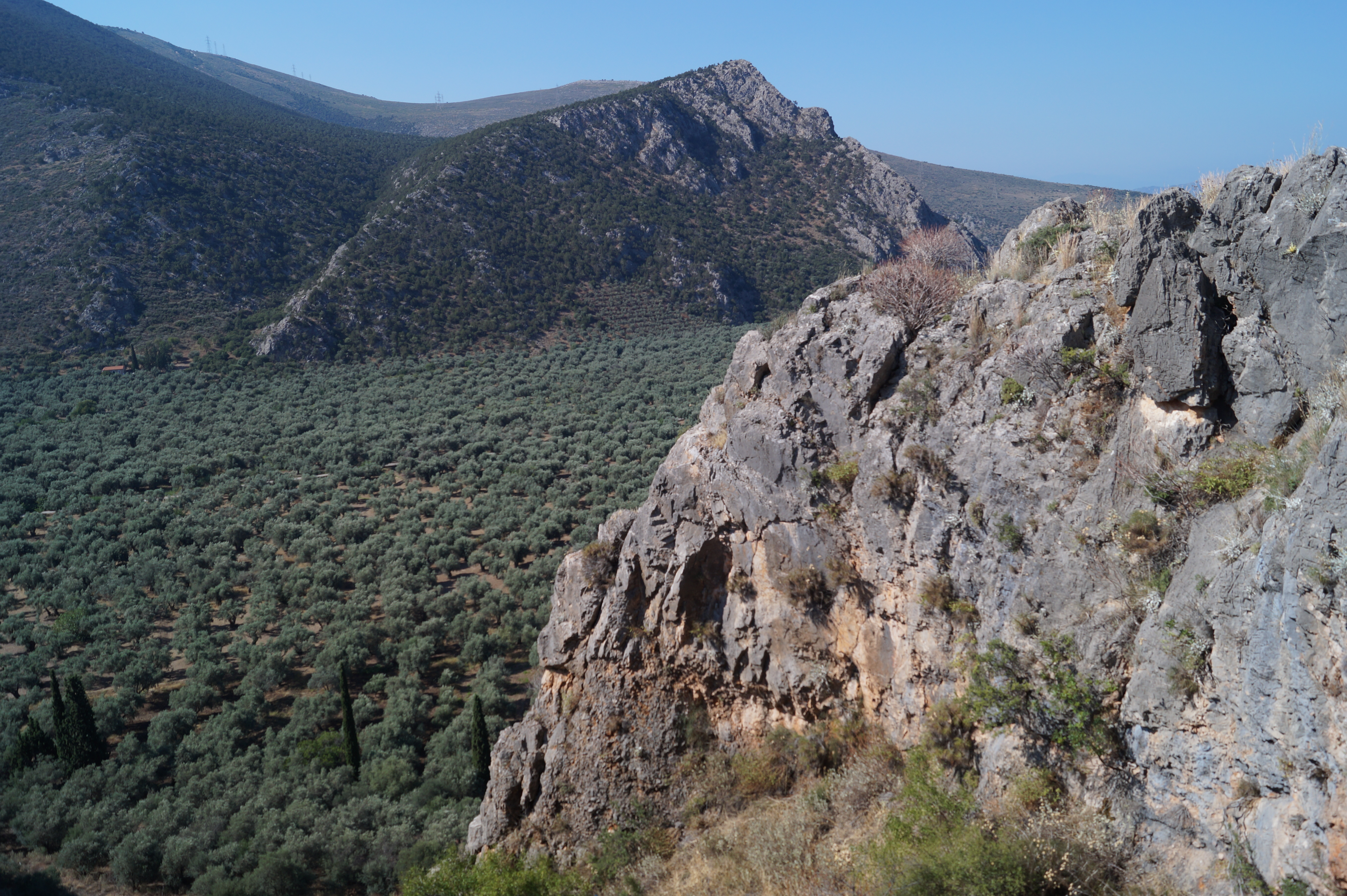 Chrisso, Fokida, Greece: View from the Stefani hill near the church of Agios Georgios to the south down to the Pleistos valley.